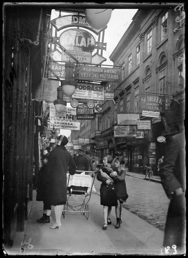 Király Street in Budapest in 1929